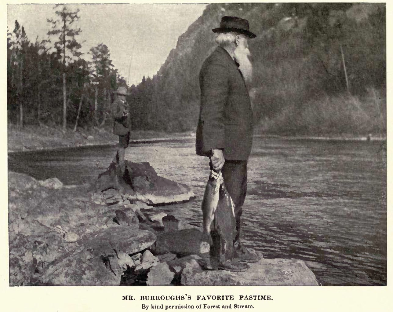 Photo of John Burrough's Fishing from Burroughs, John (1906) Camping & Tramping with Roosevelt, Category:New York: Houghton Mifflin Company, pp. 50